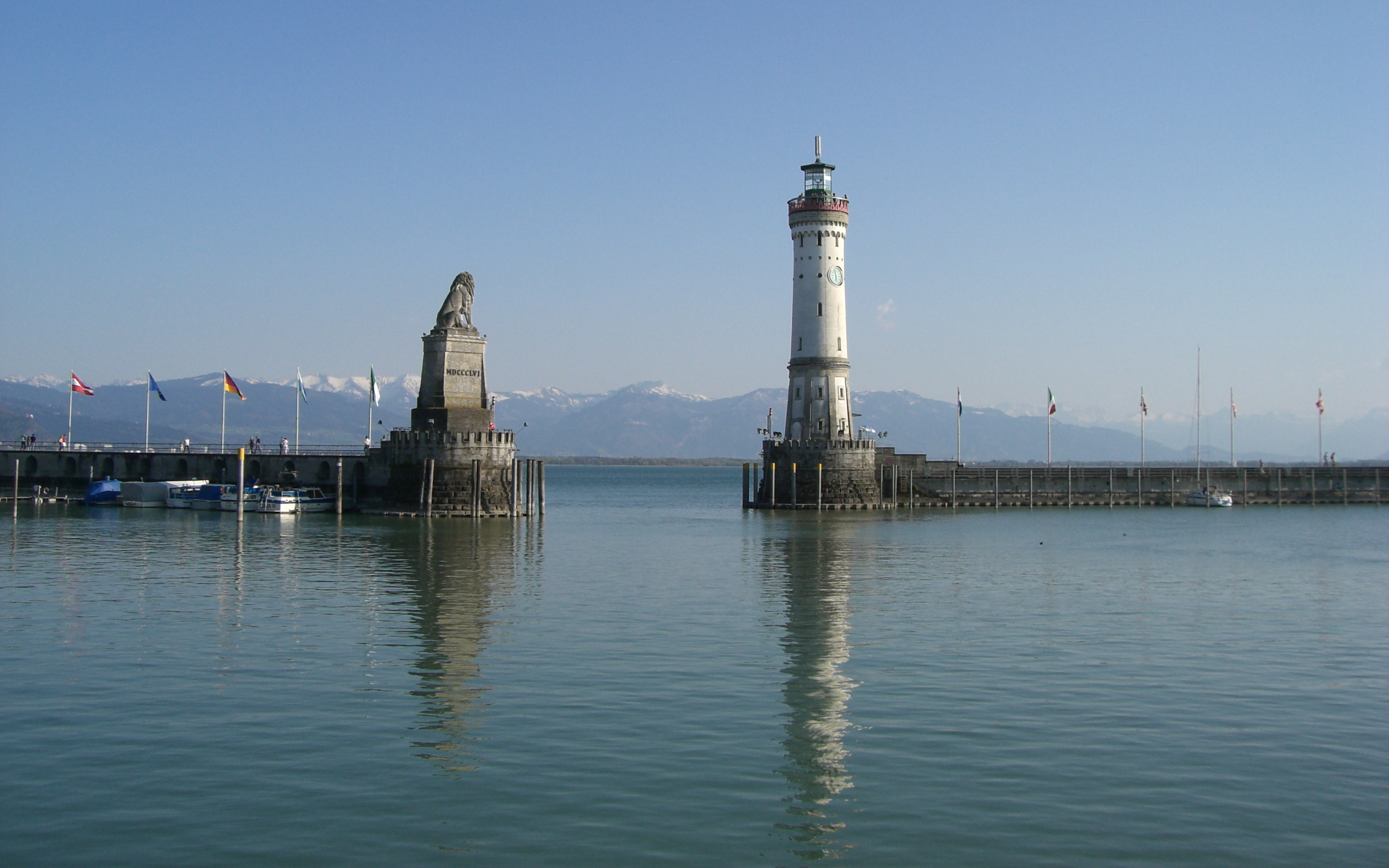 Harbor entrance with Bavarian Lion and New Lighthouse, Lindau (Lake Constance, Bavaria, Germany)